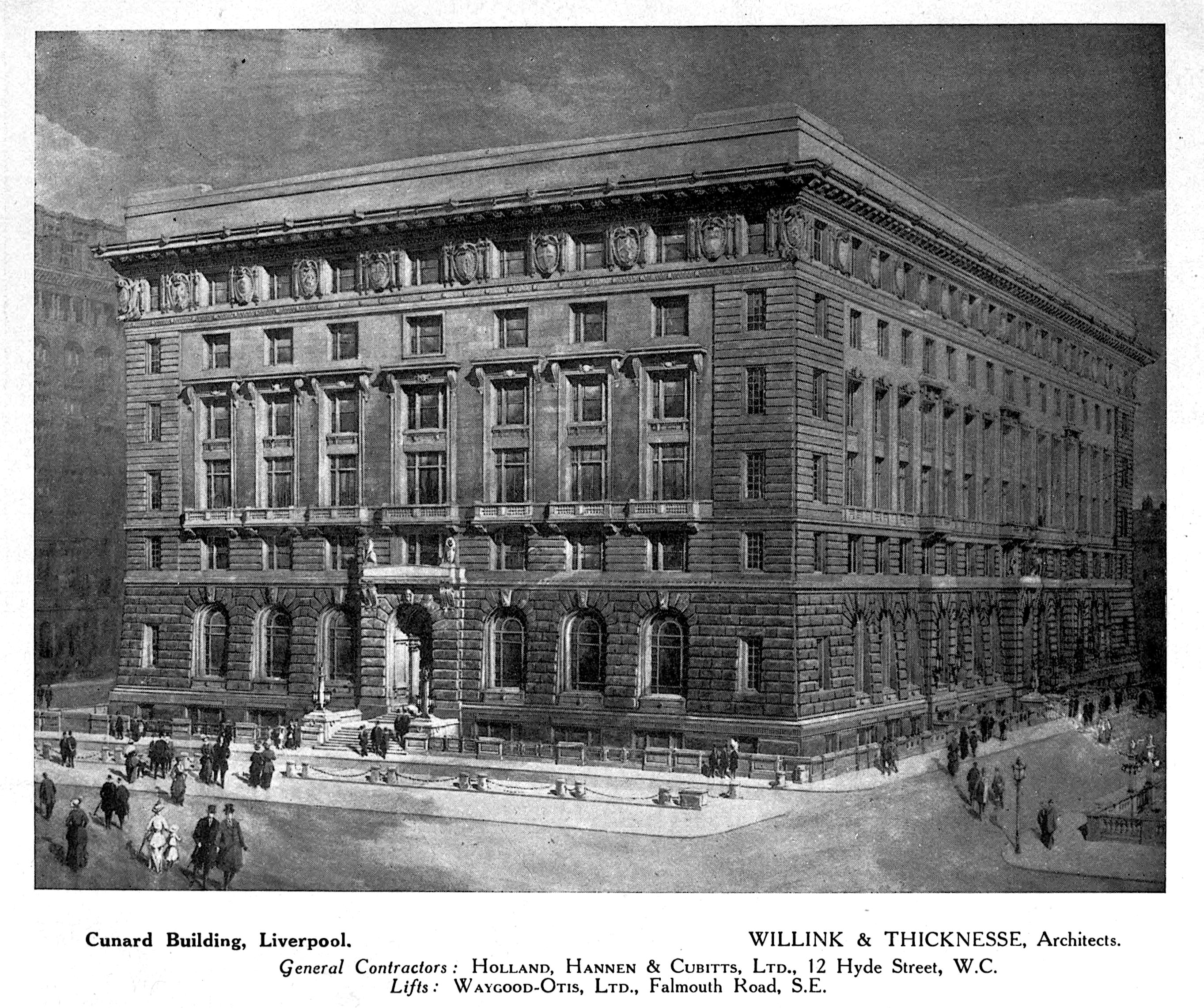 Perspective drawing.